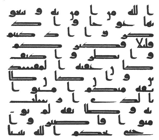 Kufic script, from an early Quran manuscript of the 8th–9th centuries CE showing sura 7 (al-Aʿrāf), verses 86 & 87. National Library, St. Petersburg, Russia.